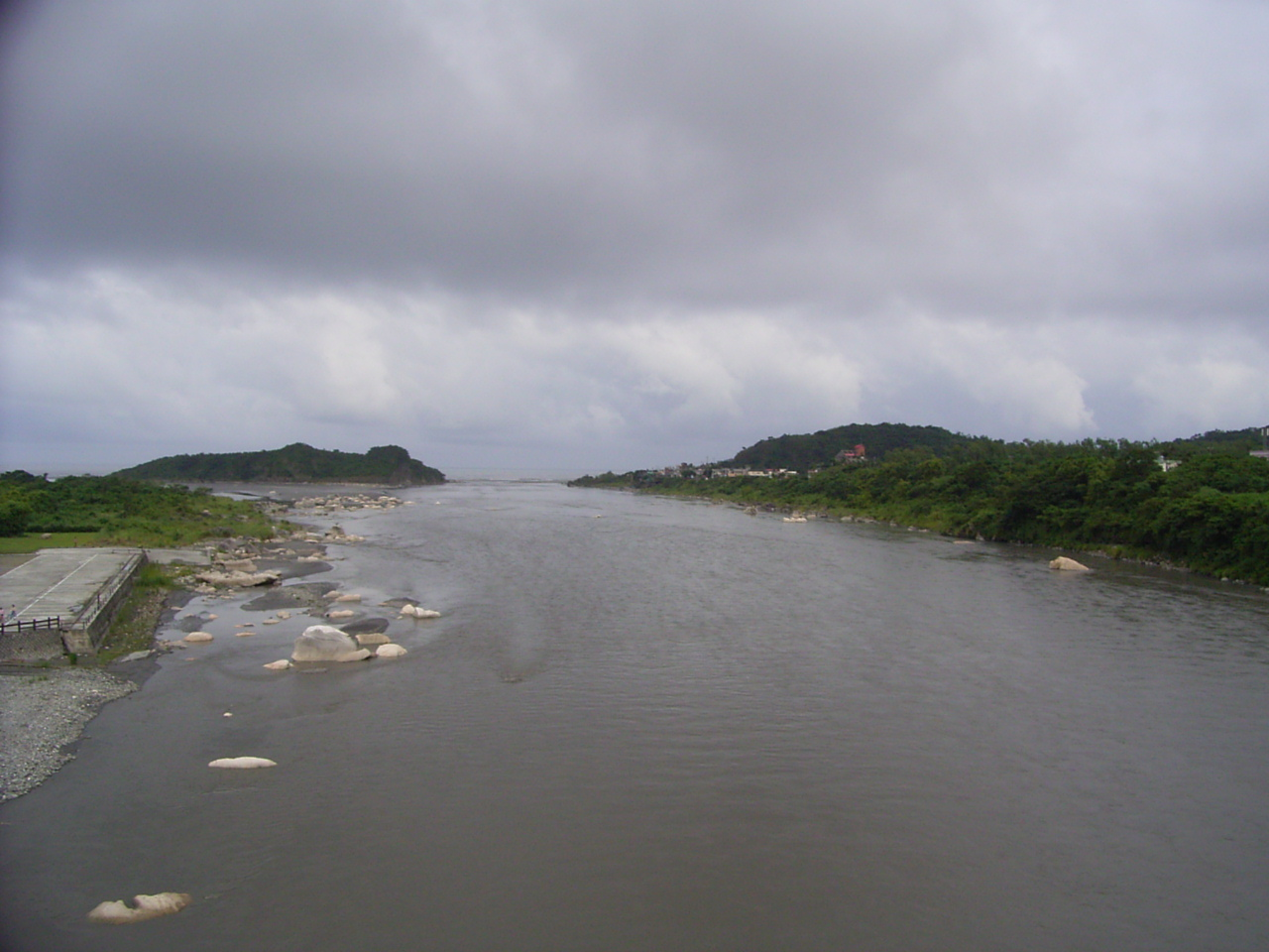 taiwan xiugulan river